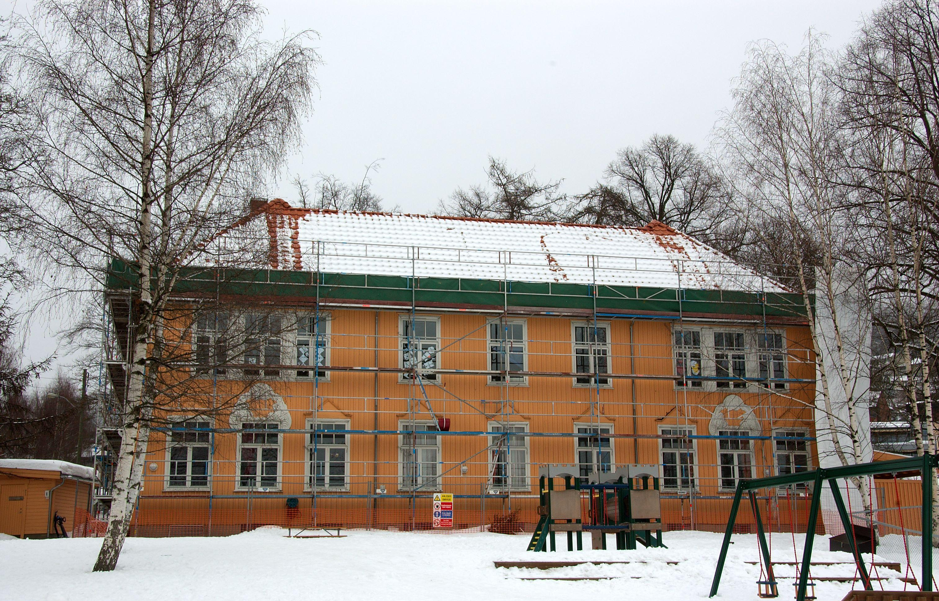 Grefsen Sanatorium, Oslo, Norway